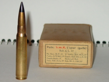 This is a picture I took of a German Armor-Piercing Tracer round with box. Taken 11/6/07. The German military used 7,9mm often omitted any diameter reference and only printed the exact type of loading on ammunition boxes during World War II.